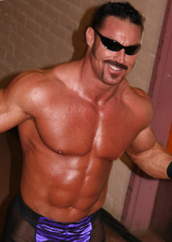 Rob Conway makes his entrance on a WWE house show held in Kitchener, Ontario, Canada on January 15, 2005.